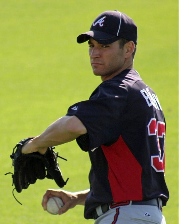 Beachy, ready to pounce